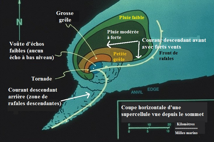 French version of the horizontal structure of a supercell structure